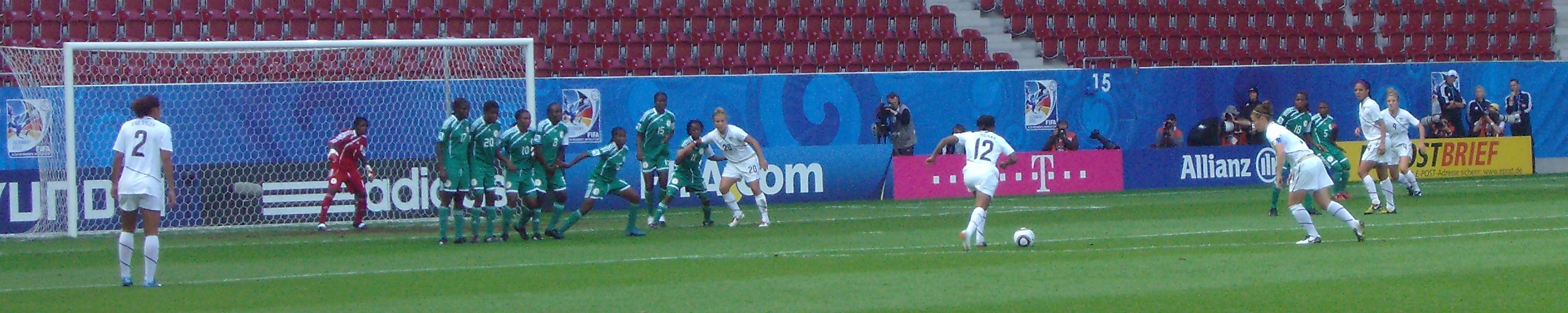 USA-Nigeria at 2010 FIFA U-20 Women's World Cup in Impuls Arena as “FIFA Women's World Cup Stadium Augsburg”:Zakiya Bywaters (12) at free kick. Other Players: See 2010 FIFA U-20 Women's World Cup squads.